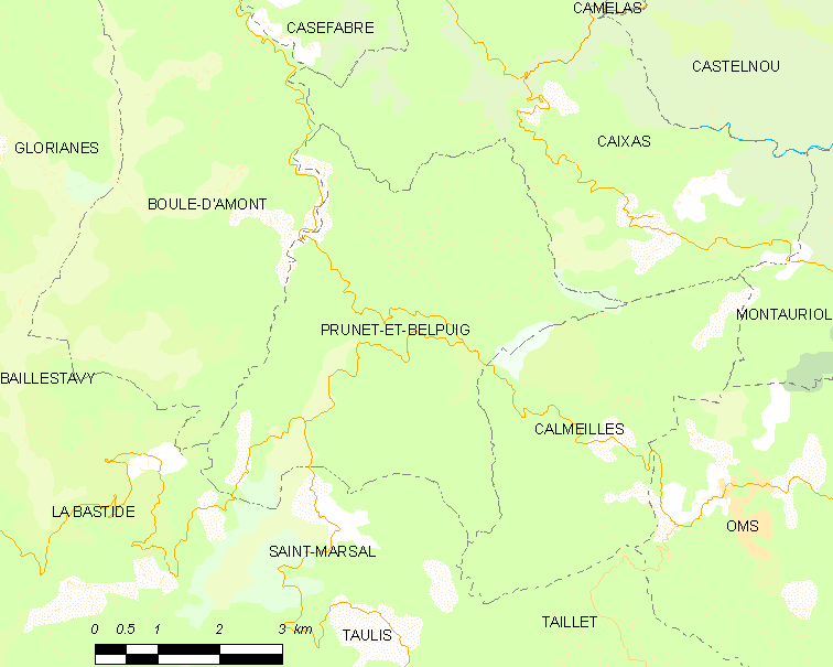 Map of French municipality